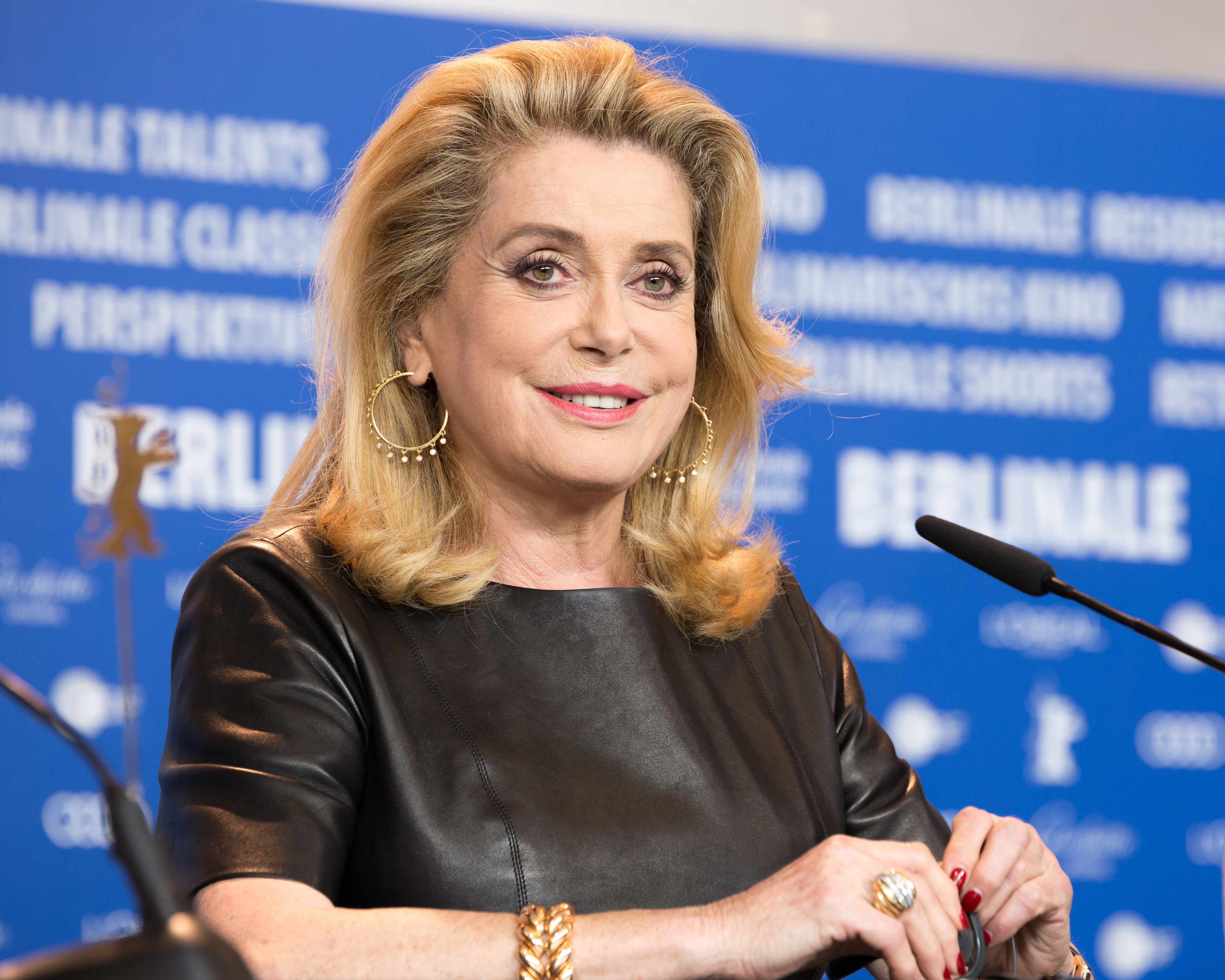 Catherine Deneuve at the presentation of Mid Wife during the Berlinale 2017